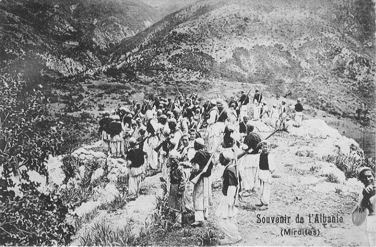 Rebellion of Mirdits against the Ottomans – Albania